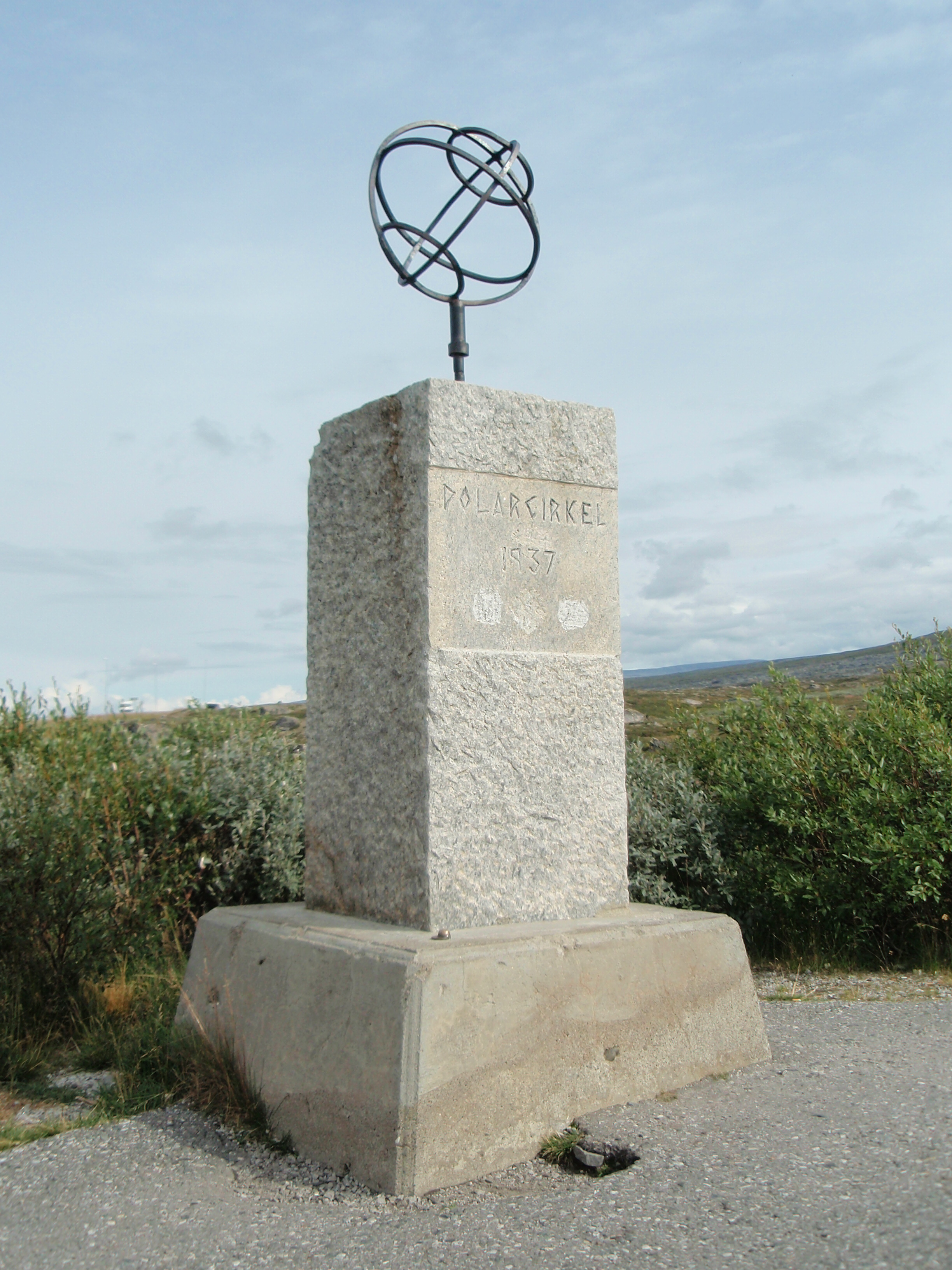 Arctic Circle monument at Saltfjellet, Norway.